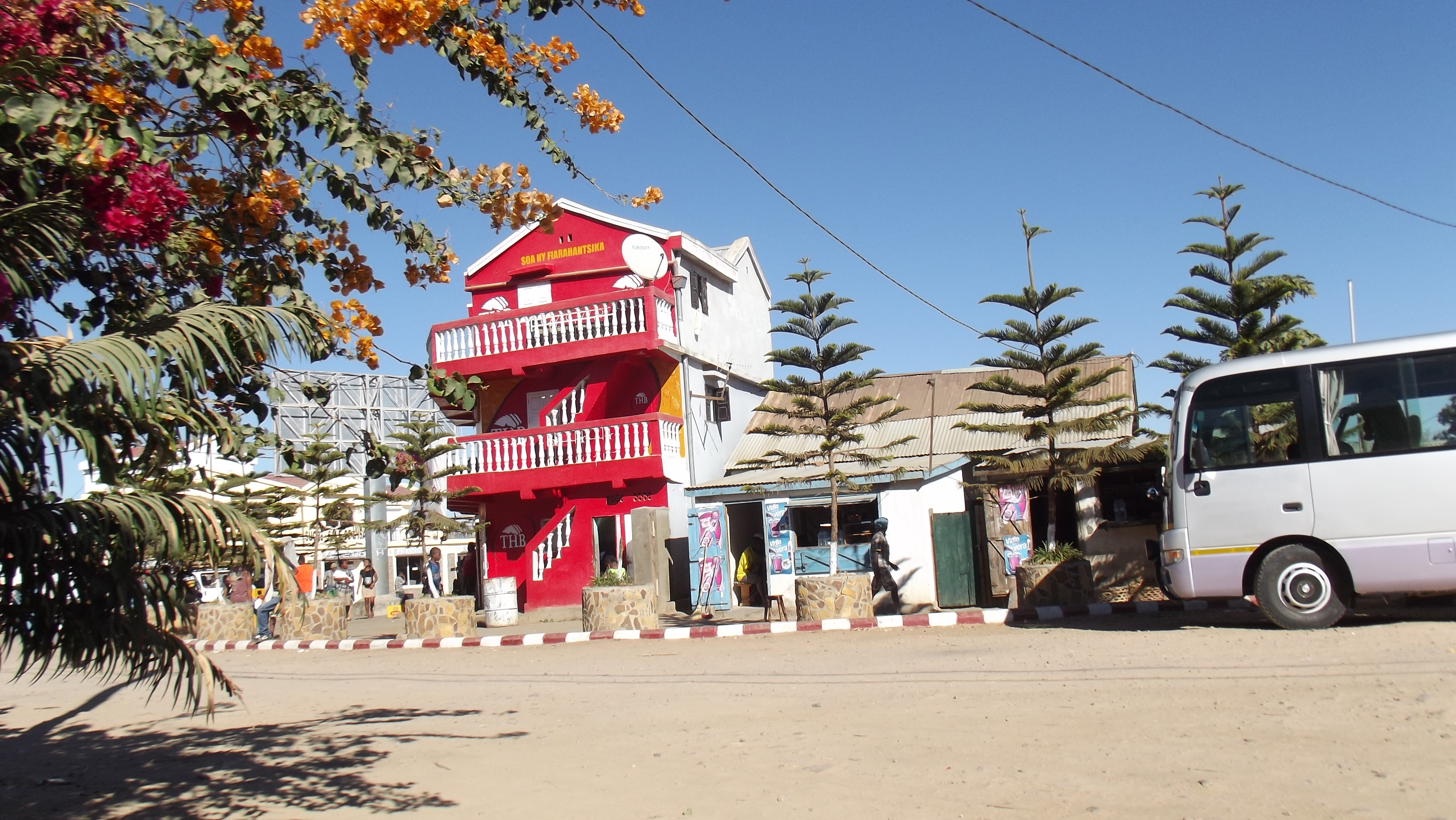 Red THB (Three Horses Beer) building in Ranohira